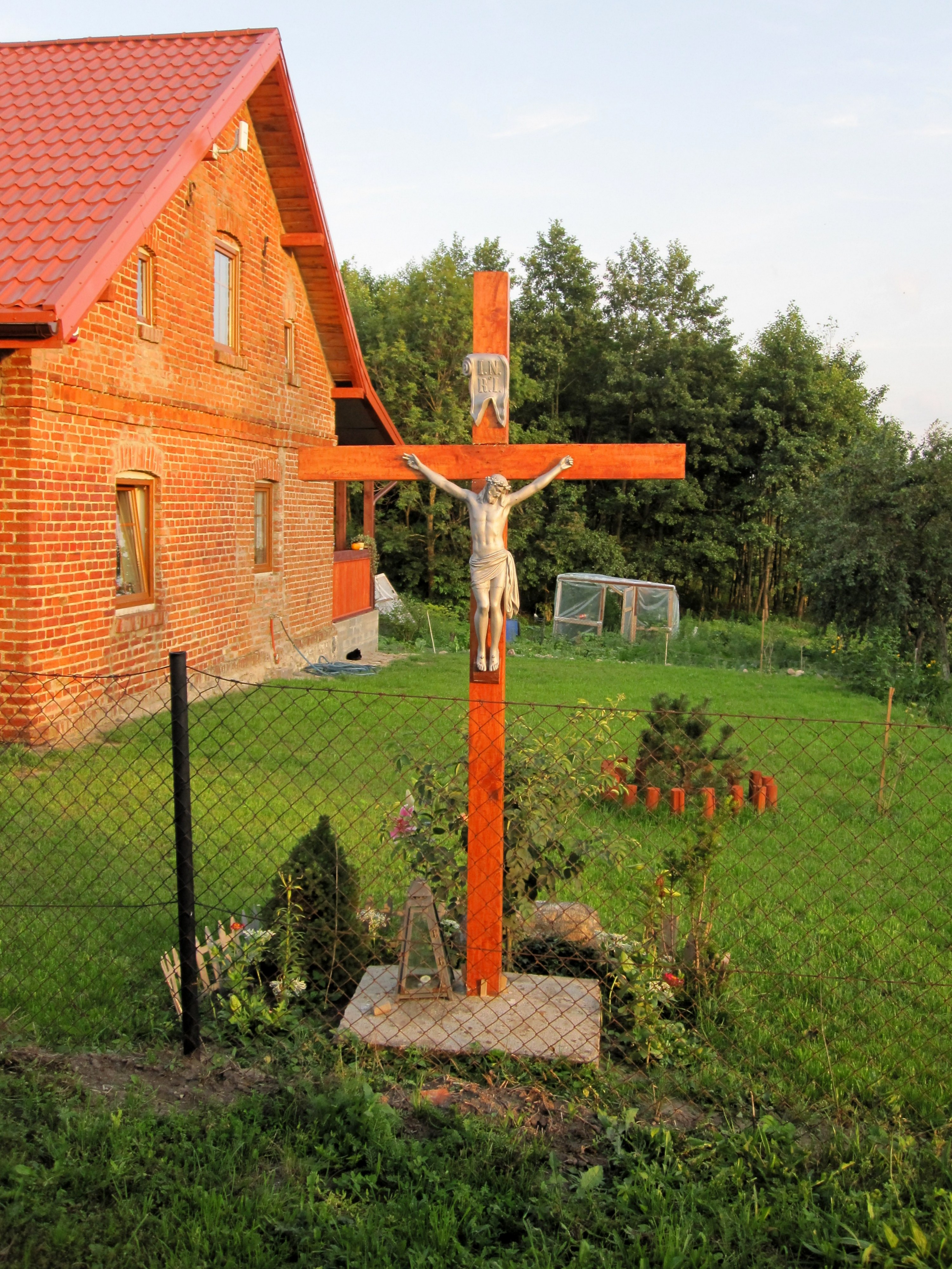 Dźwierzuty - wayside crucifix